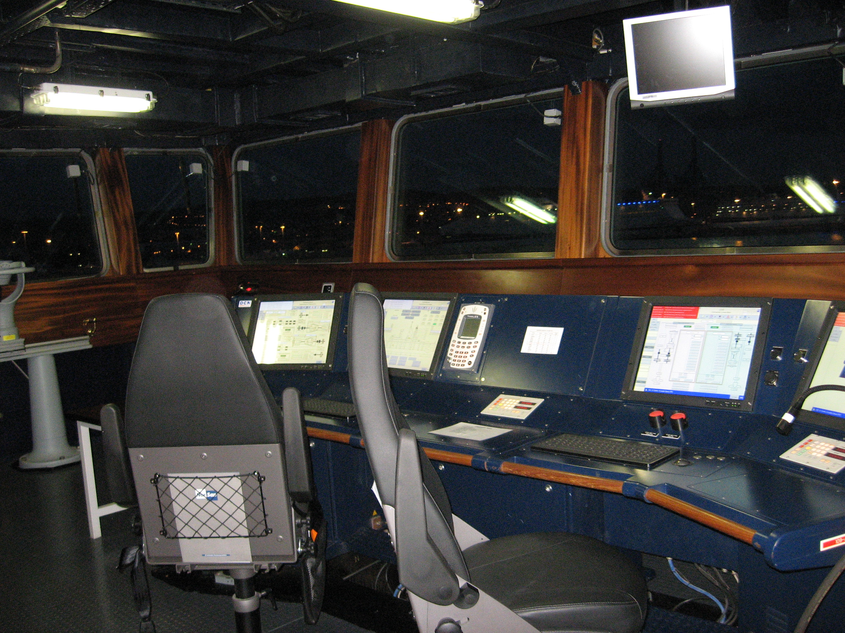 Bridge of italian destroyer Caio duilio (D 554).